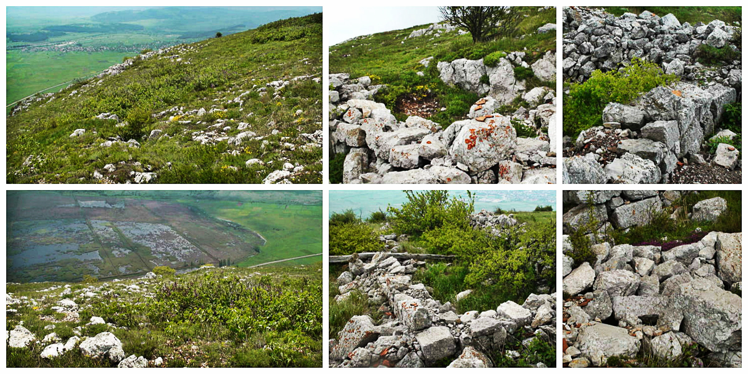 Monastery_ruins_Petrovski_krust_Dragoman_BG